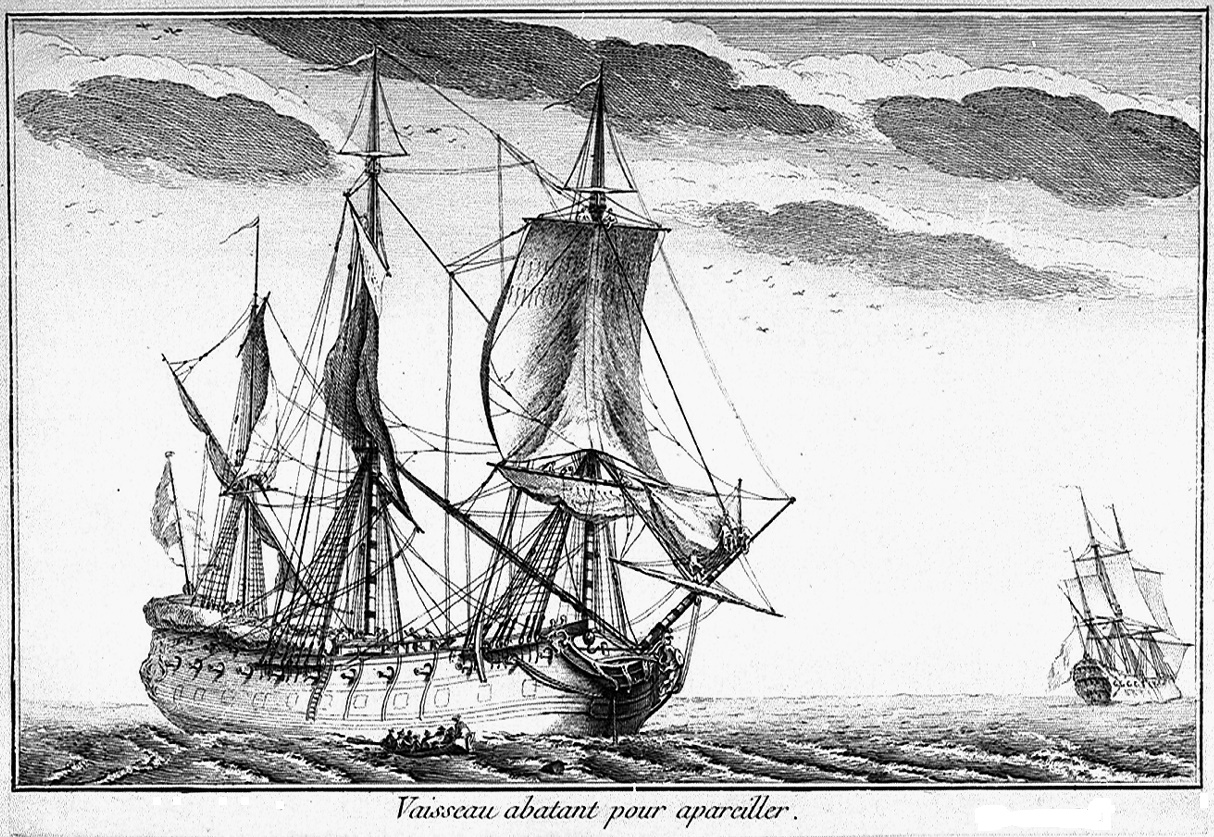 Ship setting sail.